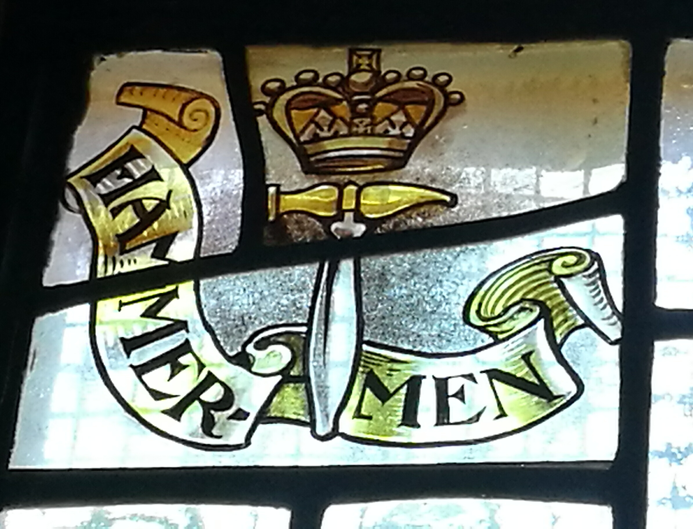 Stirling, 8-10 Corn Exchange Road, Municipal Buildings Wikidata has entry Q17842775 with data related to this item.